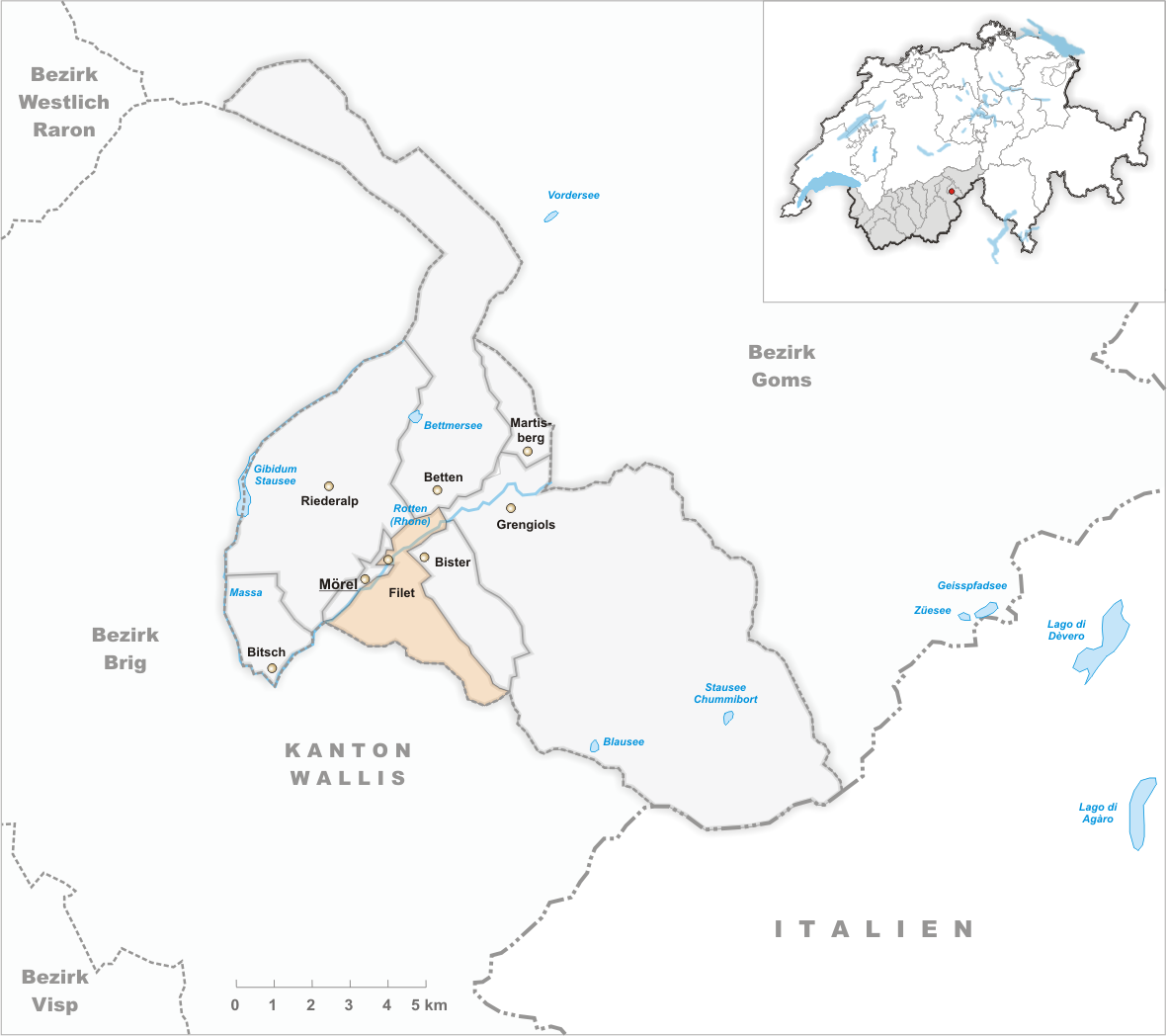 Municipality Filet